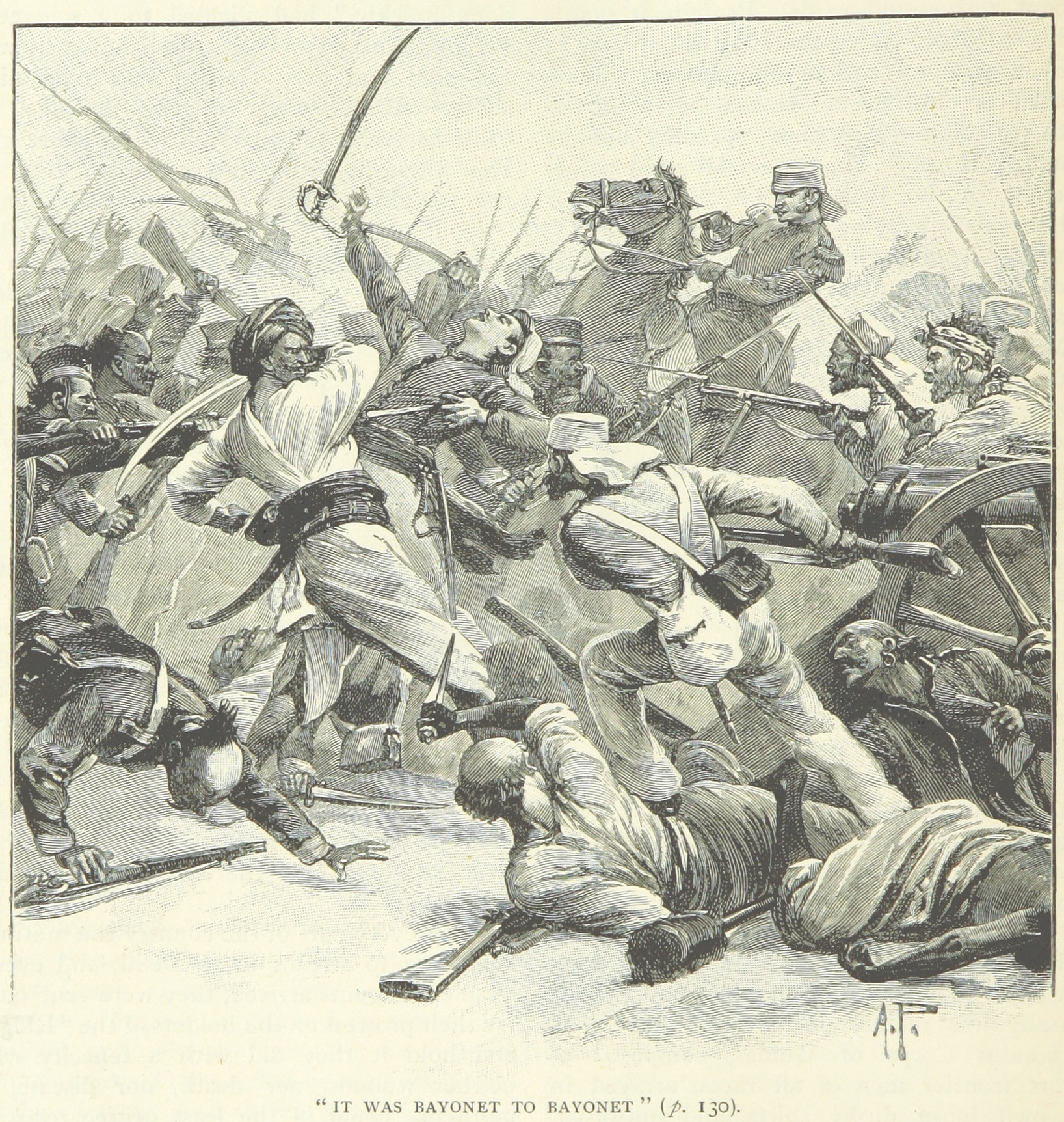 English troops clash with Seepoy Mutineers at the 1857 Battle of Najafgarh.